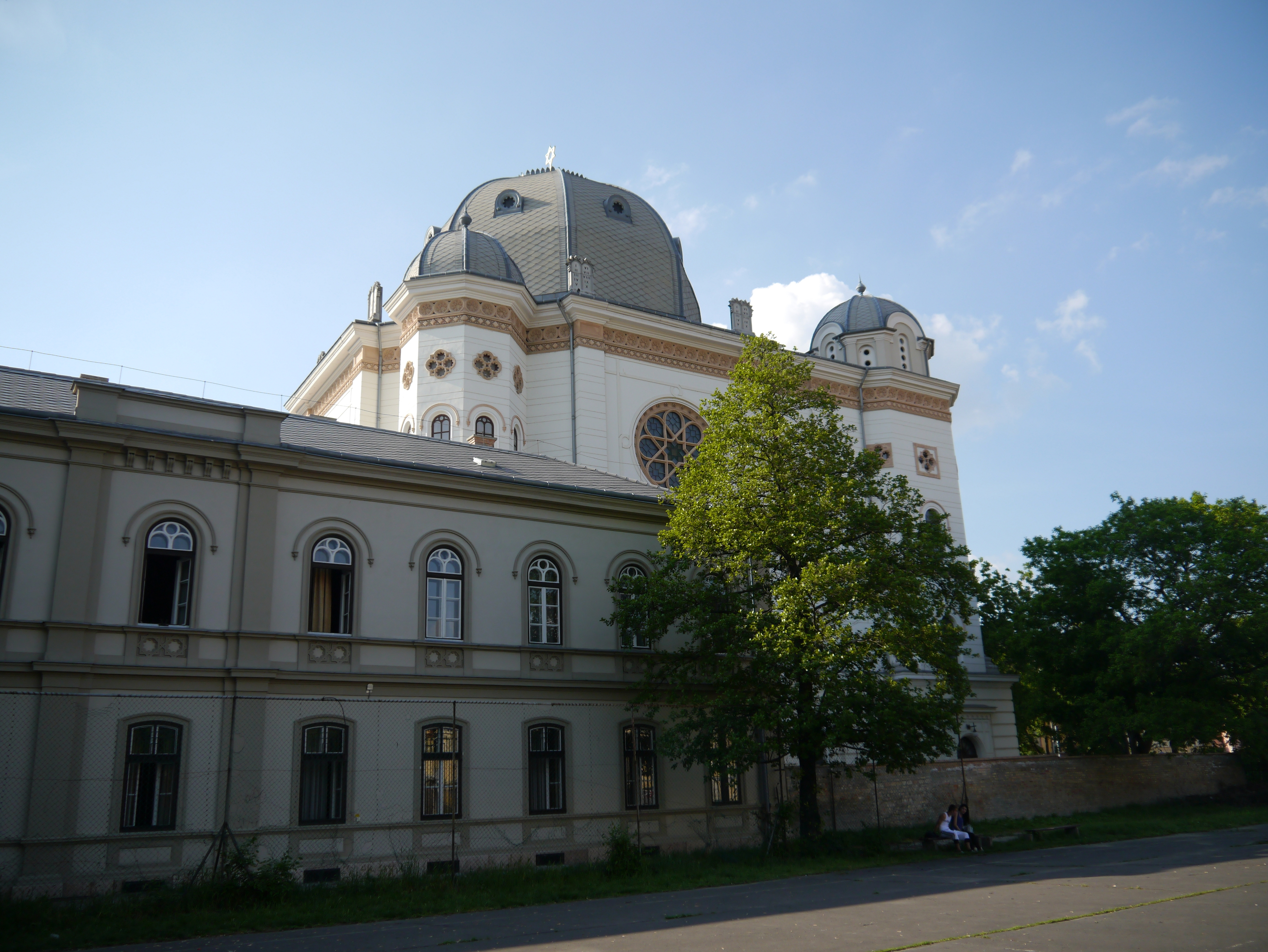 Synagogue, Györ, Western Hungary